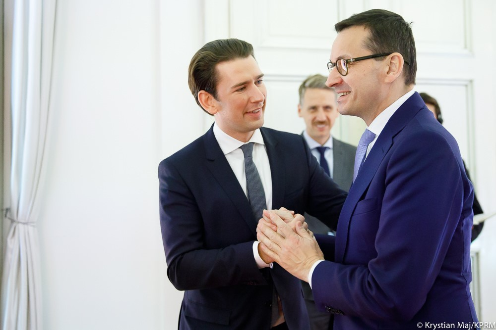 Mateusz Morawiecki and Sebastian Kurz. Africa-Europe Forum.